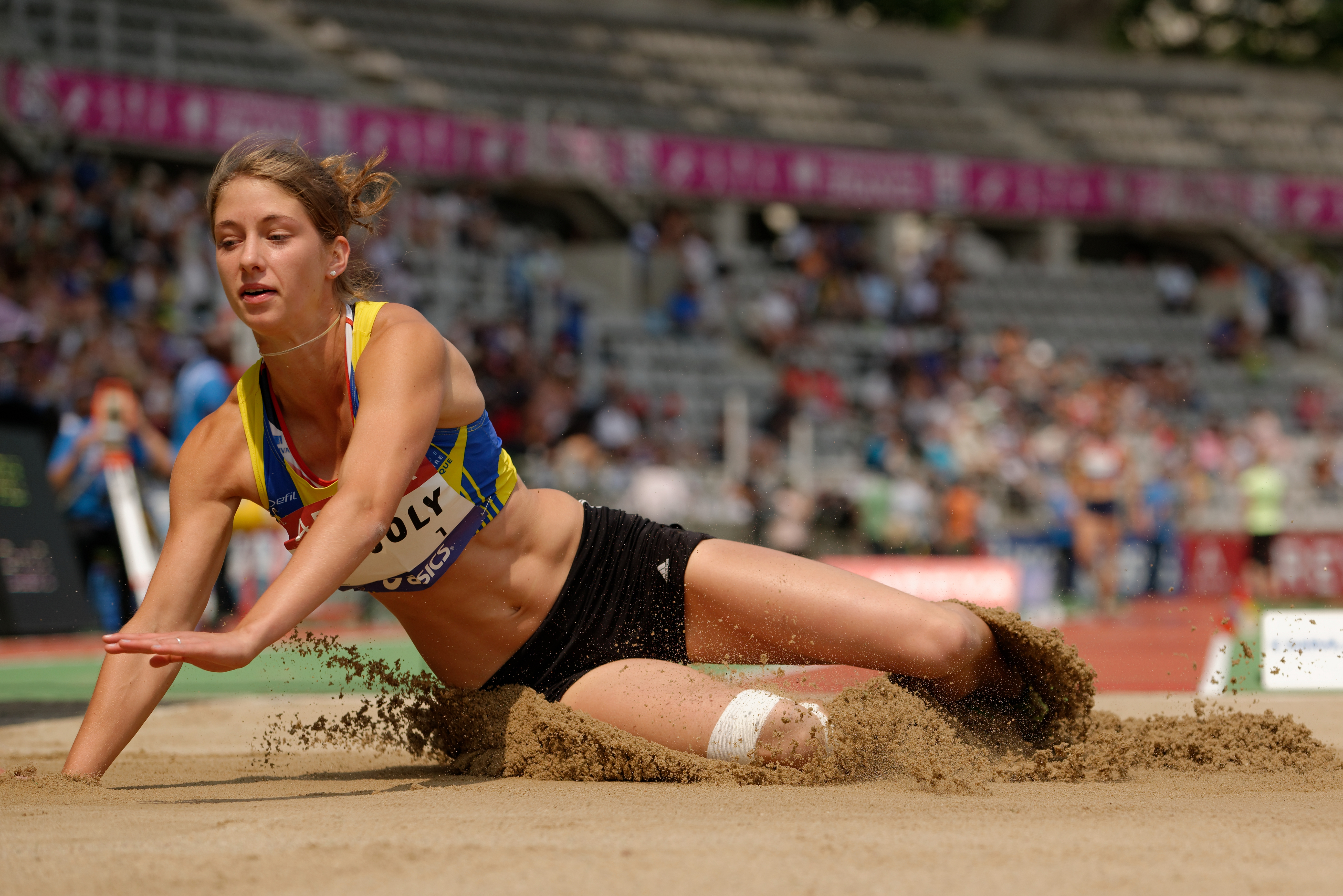 Camille Le Joly competes in the women's heptathlon long jump final during the French Athletics Championships 2013 at Stade Charléty in Paris, 13 July 2013.